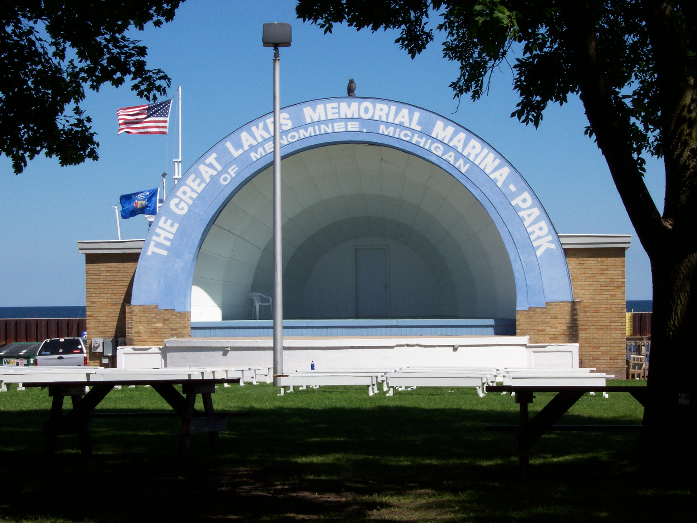 The Great Lakes marina park at Menominee, Michigan, USA.